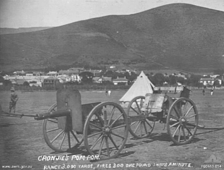 AWM caption : "CAPE TOWN, SOUTH AFRICA, C.1900. MAXIM ONE POUND AUTOMATIC GUN, CALLED A "POM POM" CAPTURED FROM GENERAL CRONJE AT PAARDEBERG IN 1900. NOTE THE BULLET HOLES IN THE COOLING JACKET." NOTE : This version has brightness and contrast artificiall increased to show detail, as the original is somewhat dark.